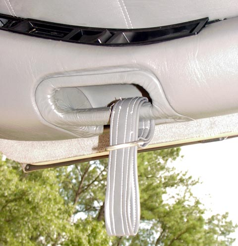 1981 De Lorean door pull strap. easing image under GFDL licensing